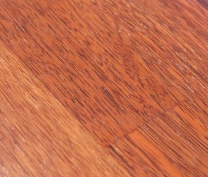 Merbau parquetry from Possling homecenter Berlin. Merbau is mainly illegal logged in West Papua.